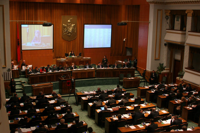 The Albanian National Assambly during a session